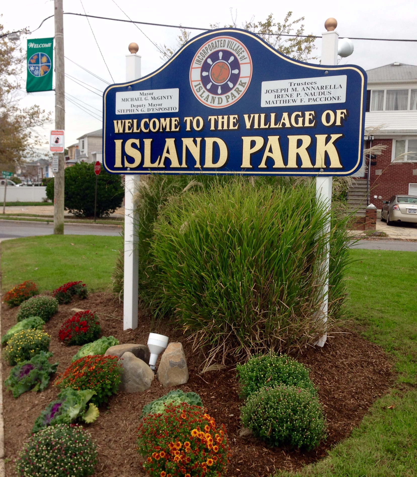 Welcom Sign